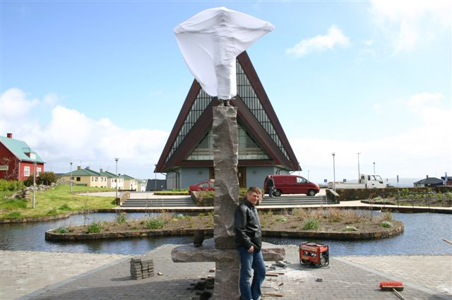 Vesturkirkjan, Tórshavn and Hans Pauli Olsen by his own work